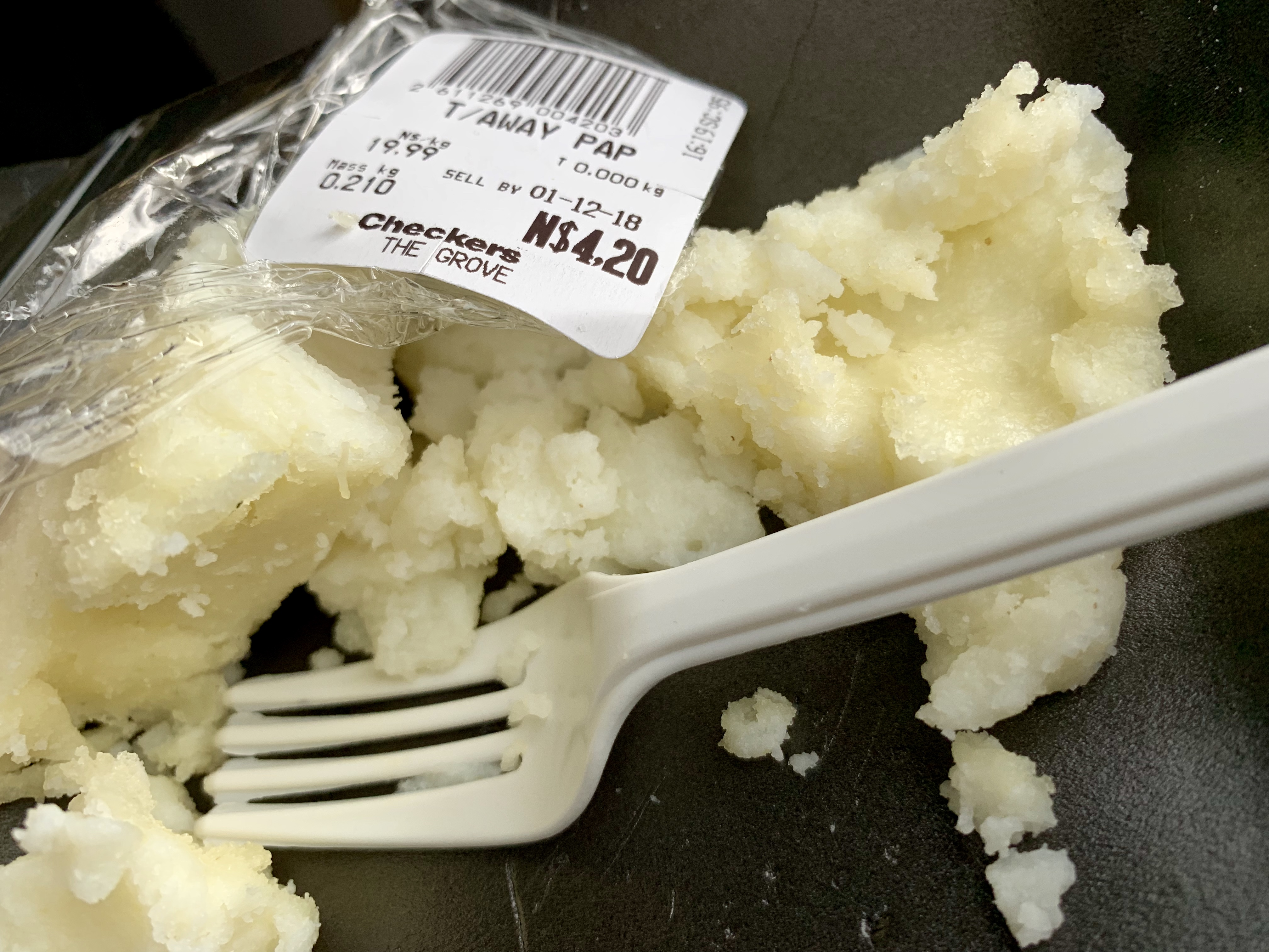 Maize pap in Namibia (Windhock). Bought in large supermarket in 'The Grove' mall. Price 30 U.S. cents (fork not included).